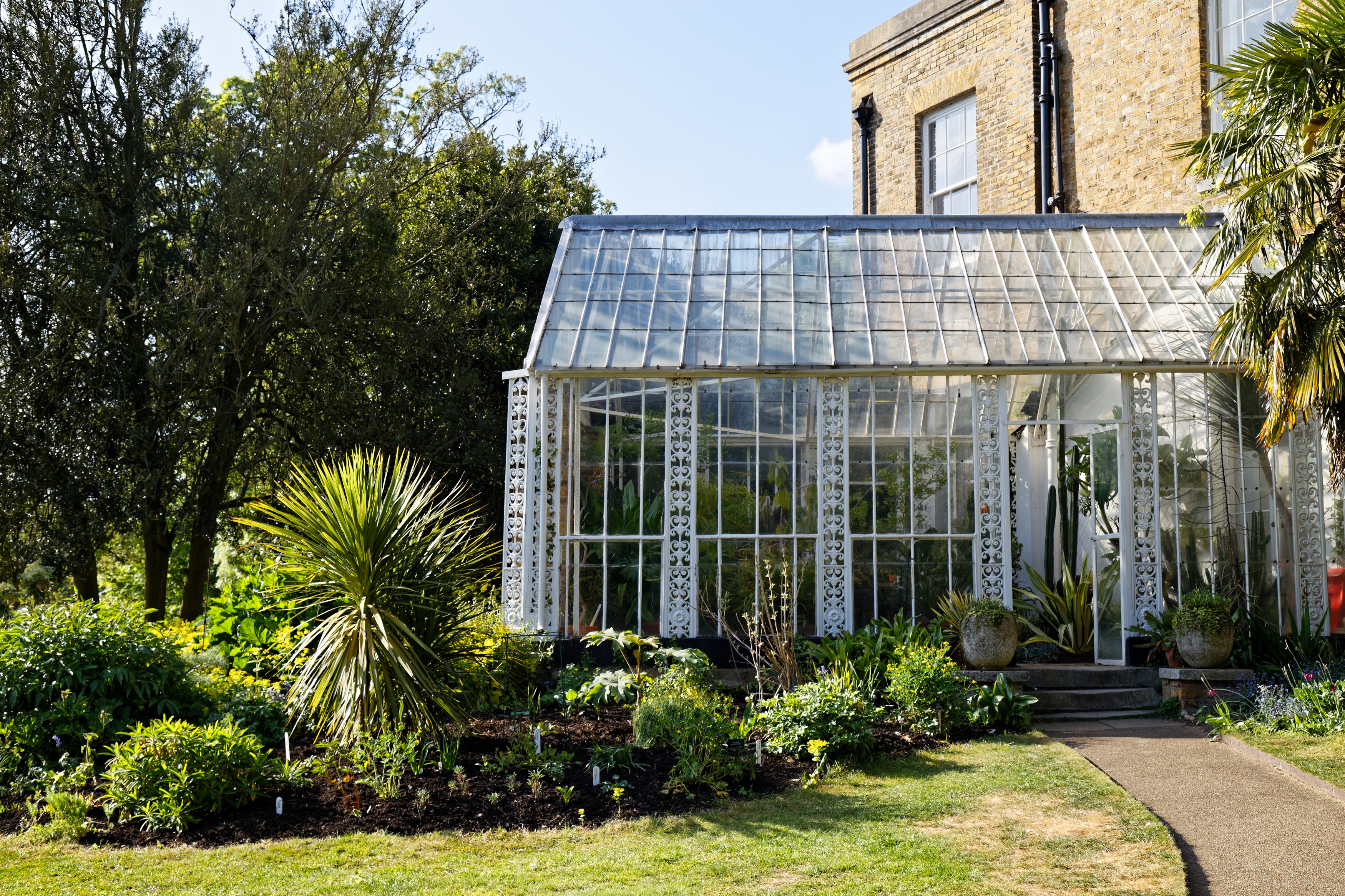 The conservatory and flower bed attached to the south face of of Grade II listed c.1819 Myddelton House, in a garden developed by Edward Augustus Bowles (1865 – 1954), botanist, horticulturalist and Vice President of the Royal Horticultural Society, in Bulls Cross, Enfield, London, England.Camera: Canon EOS 6D with Canon EF 24-105mm F4L IS USM lens.Software: RAW file lens-corrected, optimized and converted with DxO OpticsPro 11 Elite, and further optimized with Adobe Photoshop CS2.